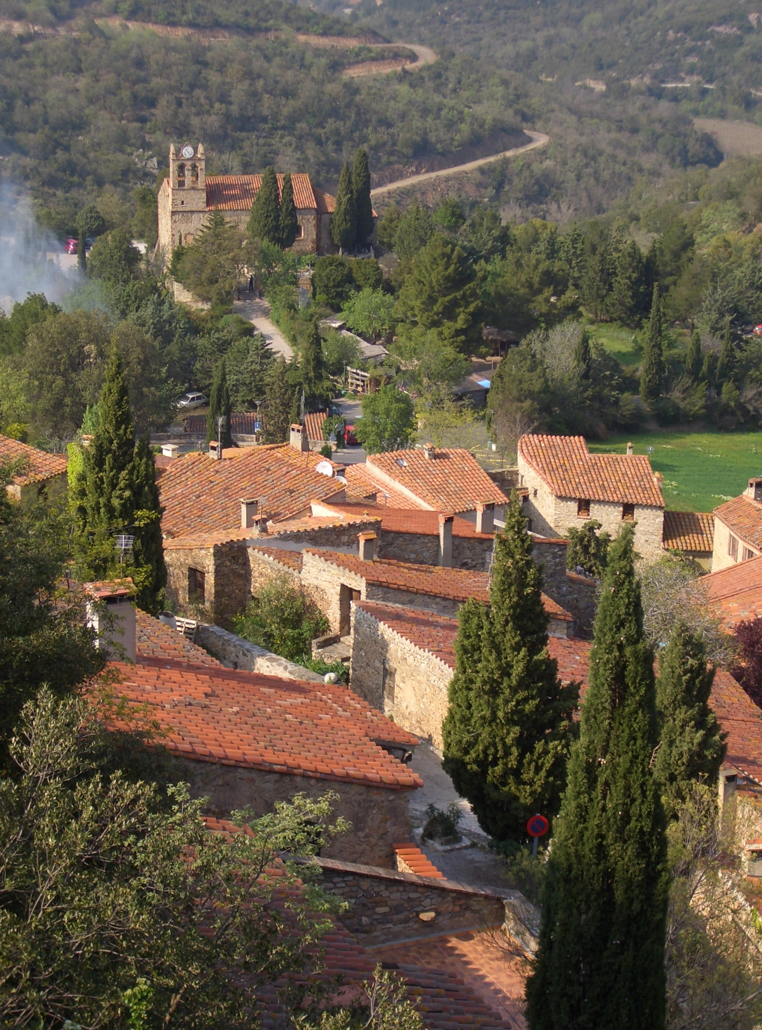 Castelnou, the village seen from the castle (view from south), in the background the church Sainte-Marie du Mercadal